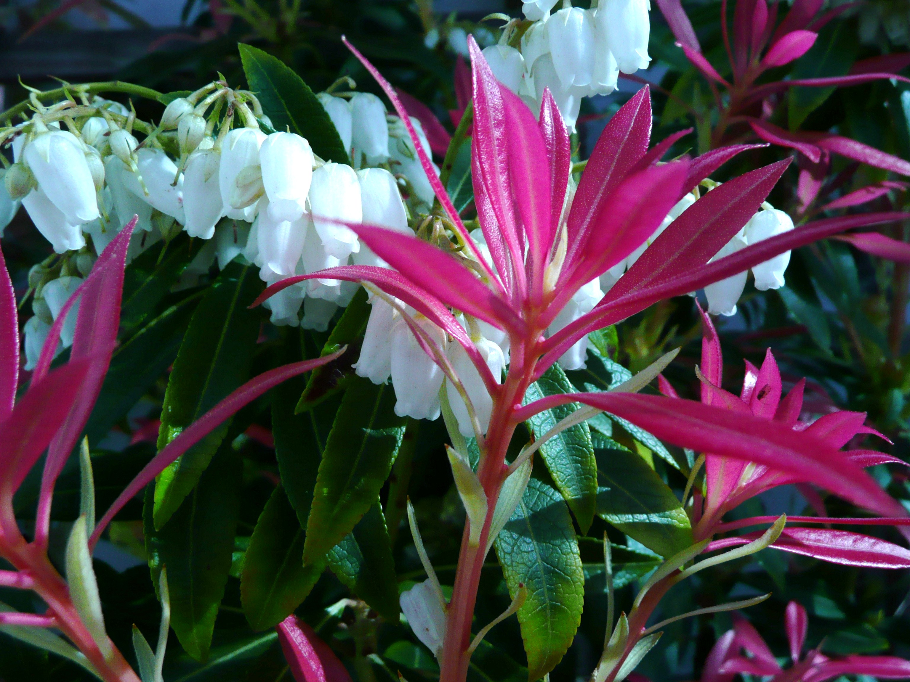 Pieris Japonica 'Mountain Fire' growing in a garden in London, England